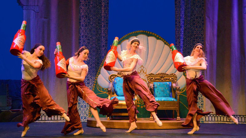 Maidens dance during a public performance of the Tabasco opera revival, New Orleans, January 2018